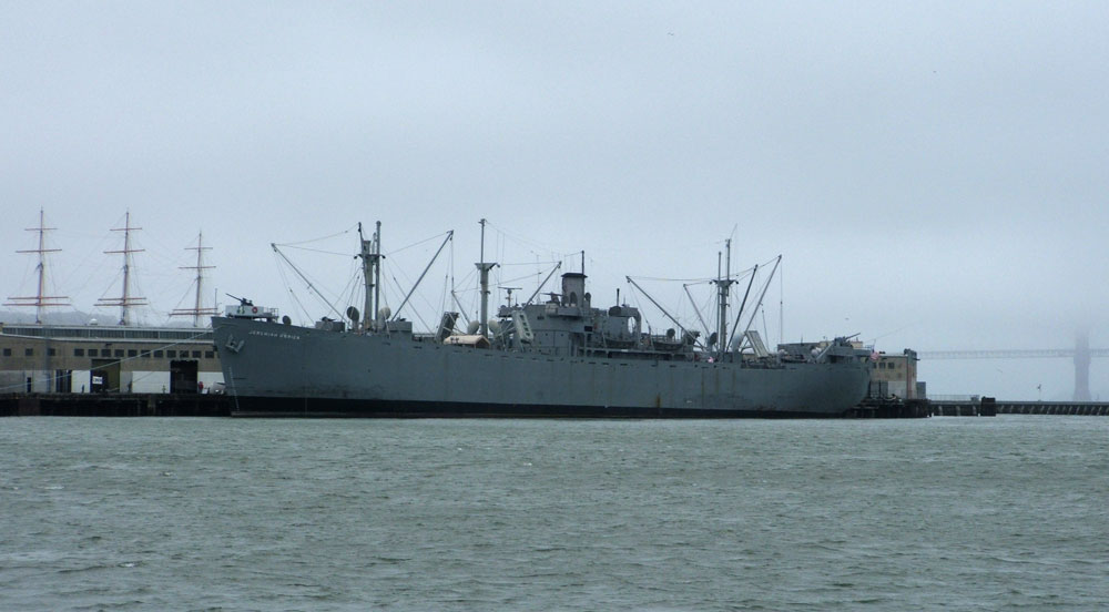 Taken and donated by User:Guinnog, May 2007 San Francisco